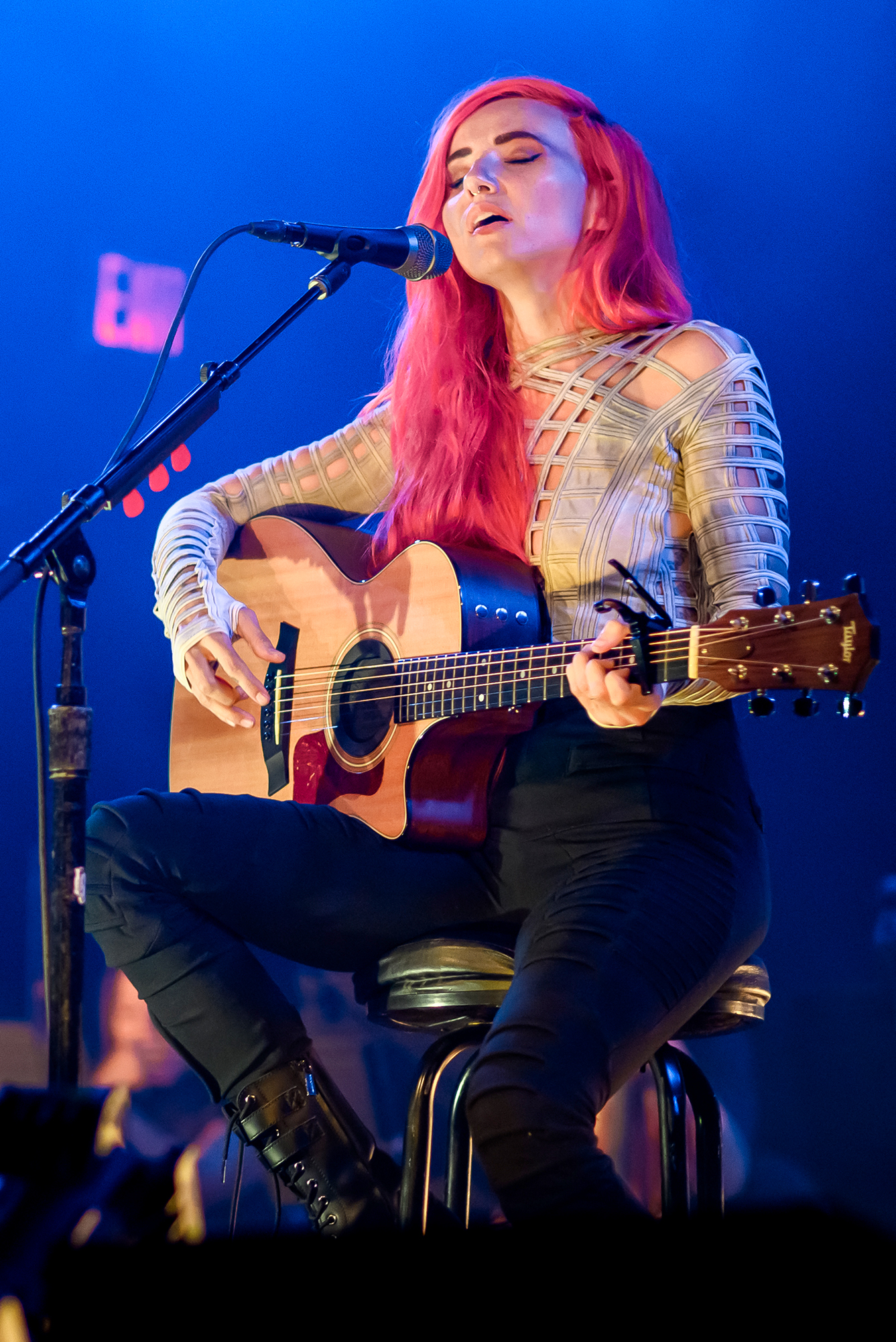 Lights performing live at the Teragram Ballroom in Los Angeles, California, on Saturday, August 10, 2019. The first of two consecutive sold out nights at this venue on Lights' "Skin & Earth Acoustic" tour.